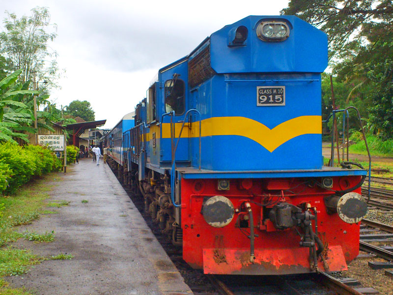 sri lanka railways class m10 locomotive manufactured by diesel locomotive works, india hauling tankers